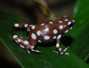 excidobatesmysteriosusbigetitle